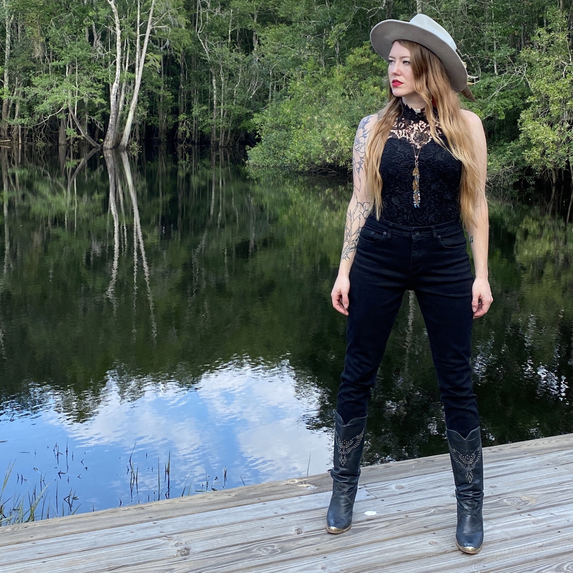 Amelia Presley filming her music video for “Harm Nobody Else”